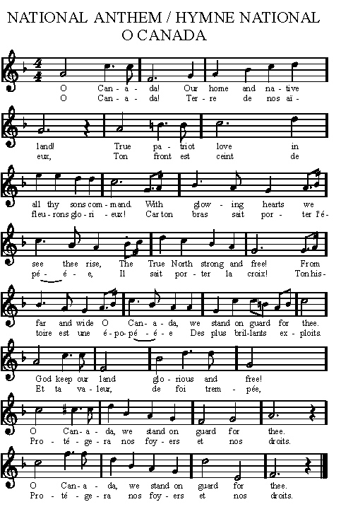 The sheet music for the anthem O Canada, with both lyrics in English and French. The source of the image is at